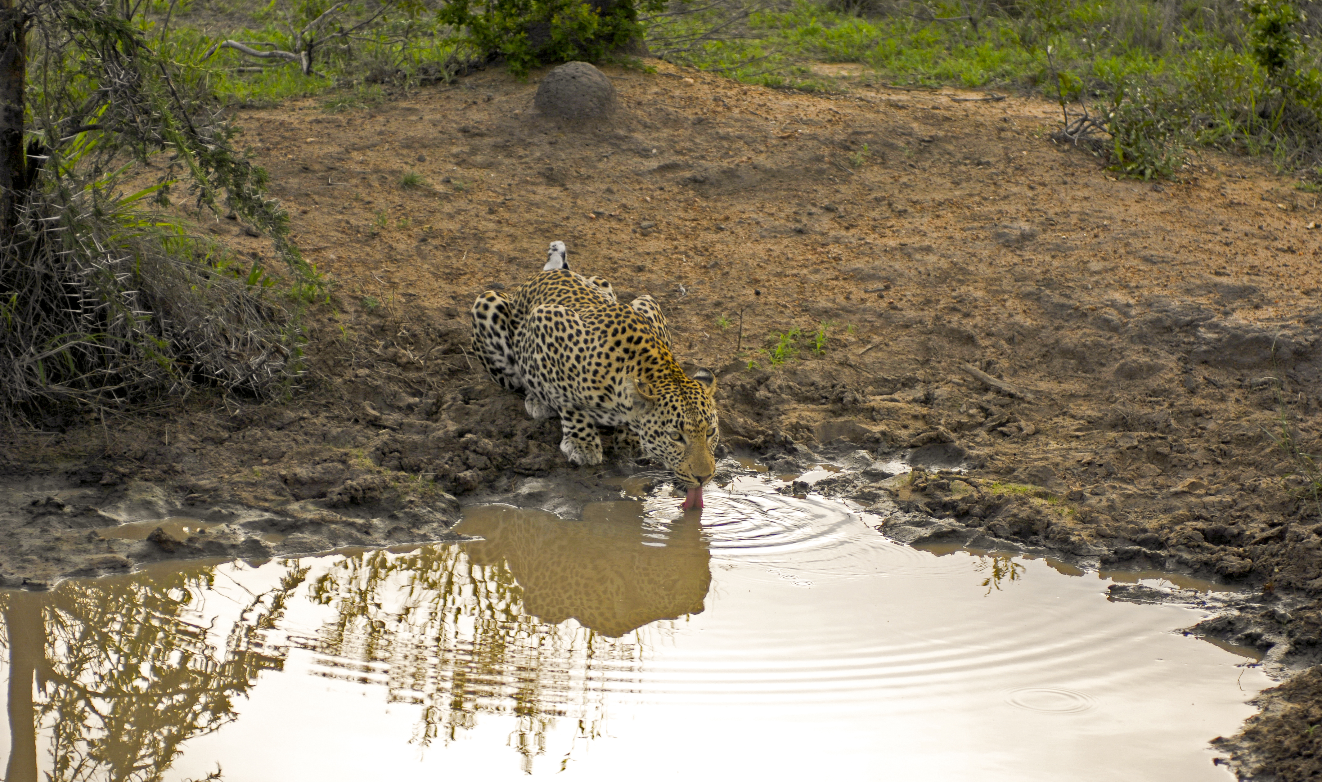 African leopard (Panthera pardus) in Kruger National Park.